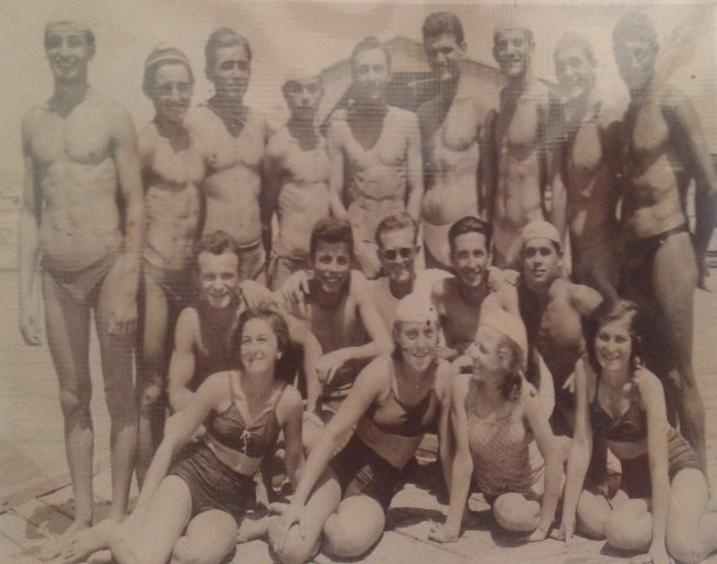 Ekipi notit